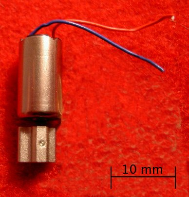 Electric motor used for vibrating alert, extracted from a Motorola minicall pager.